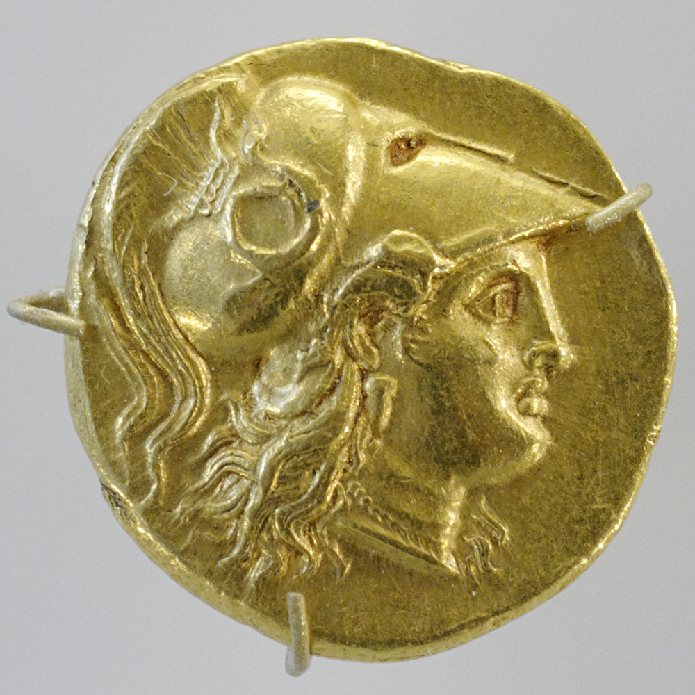 Head of helmeted Athena right. Obverse of a gold stater minted in Babylon during the reign of Philip III or Philip IV of Macedon.